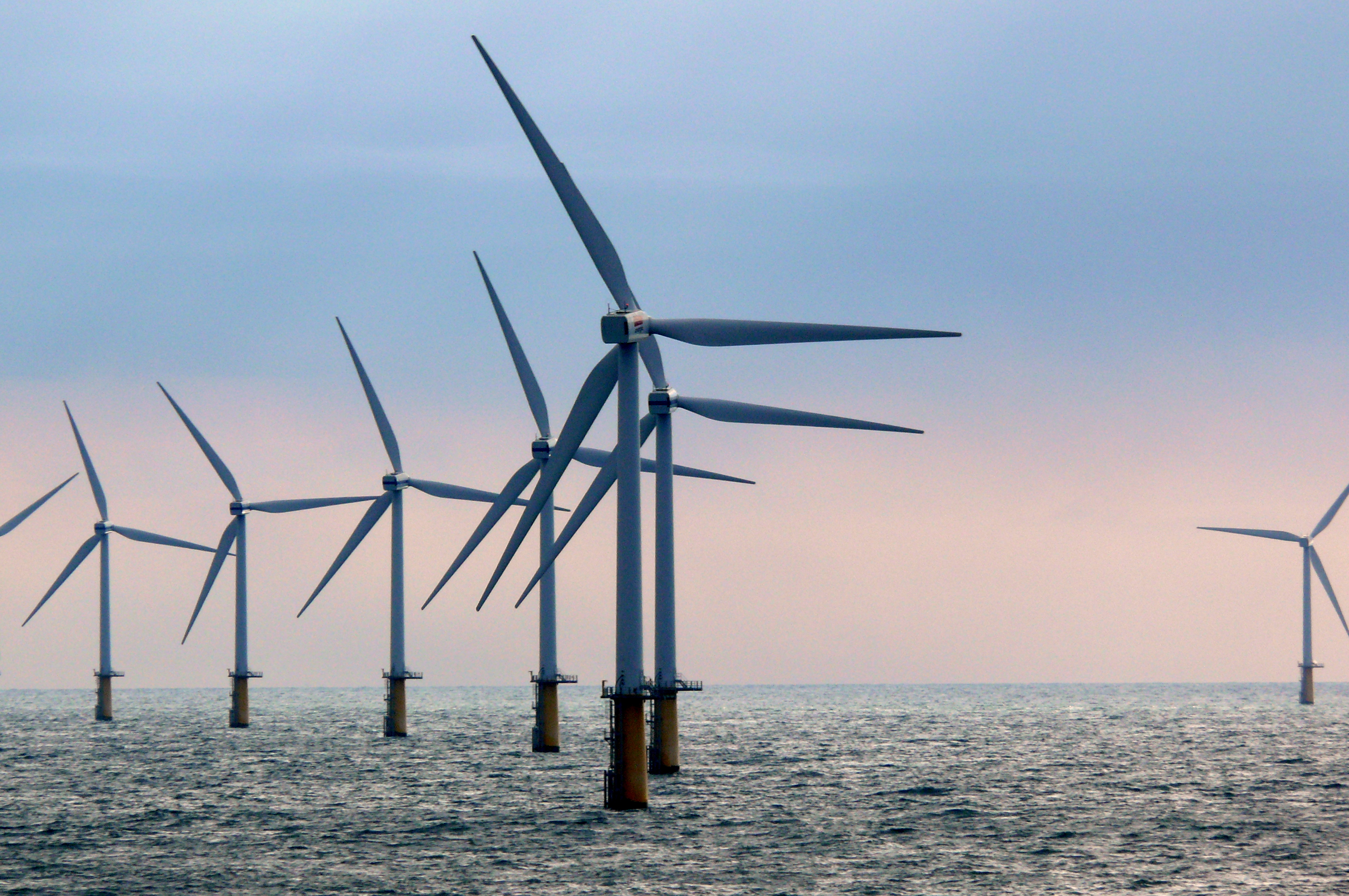 Princess Amalia Wind Farm (Q7 Wind park) an offshore wind farm in the Netherlands.